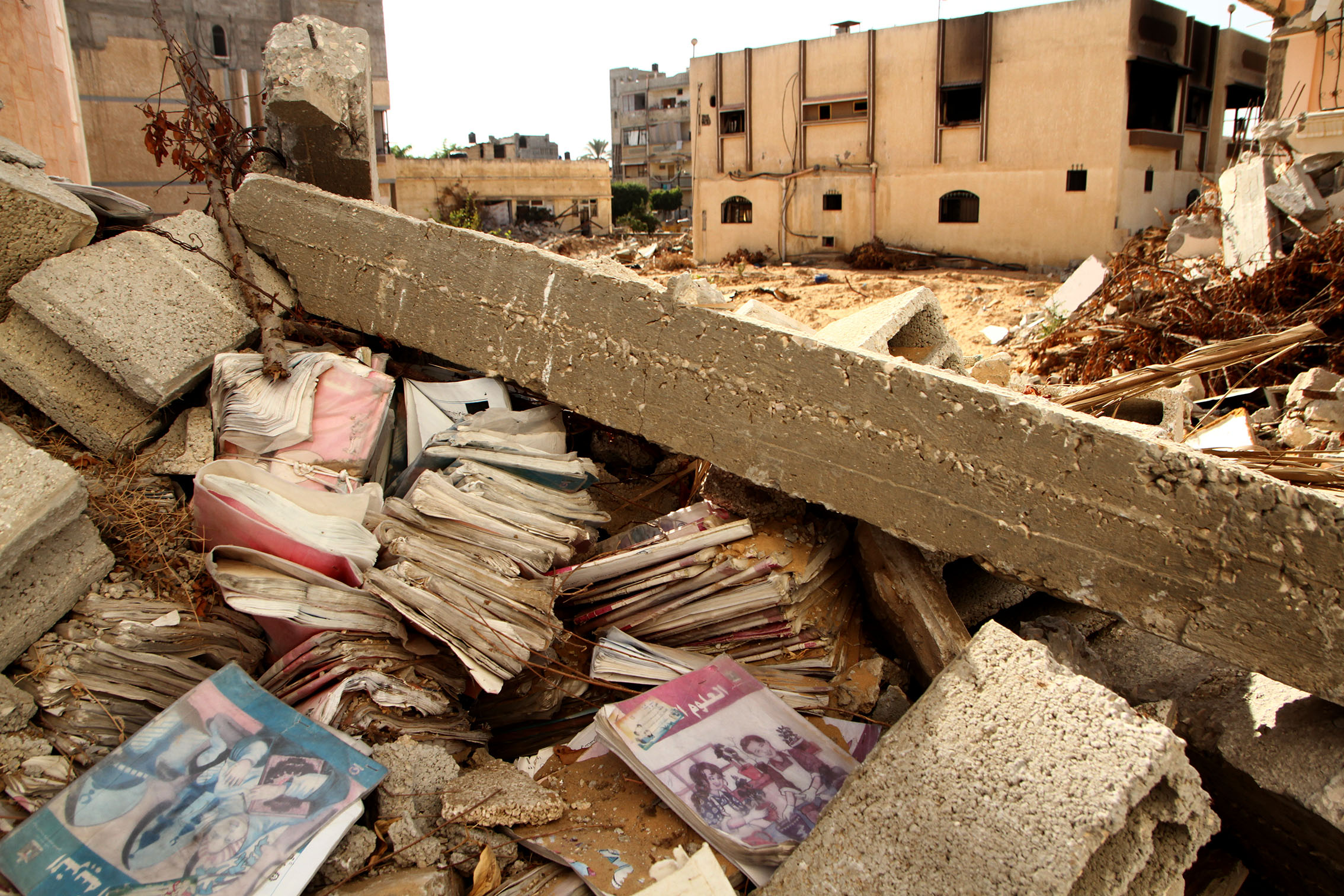 Gaza (Palestina), 25 de septiembre (Andes).- Franja de Gaza. Foto: Luis Astudillo C. / Andes